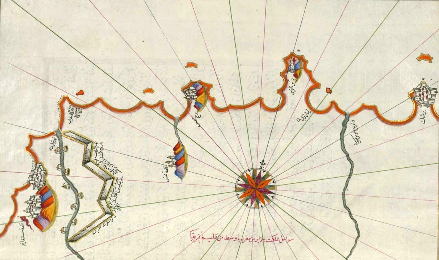 This folio from Walters manuscript W.658 contains a map of the Algerian coast around Mostaganem (Mustaghanim).